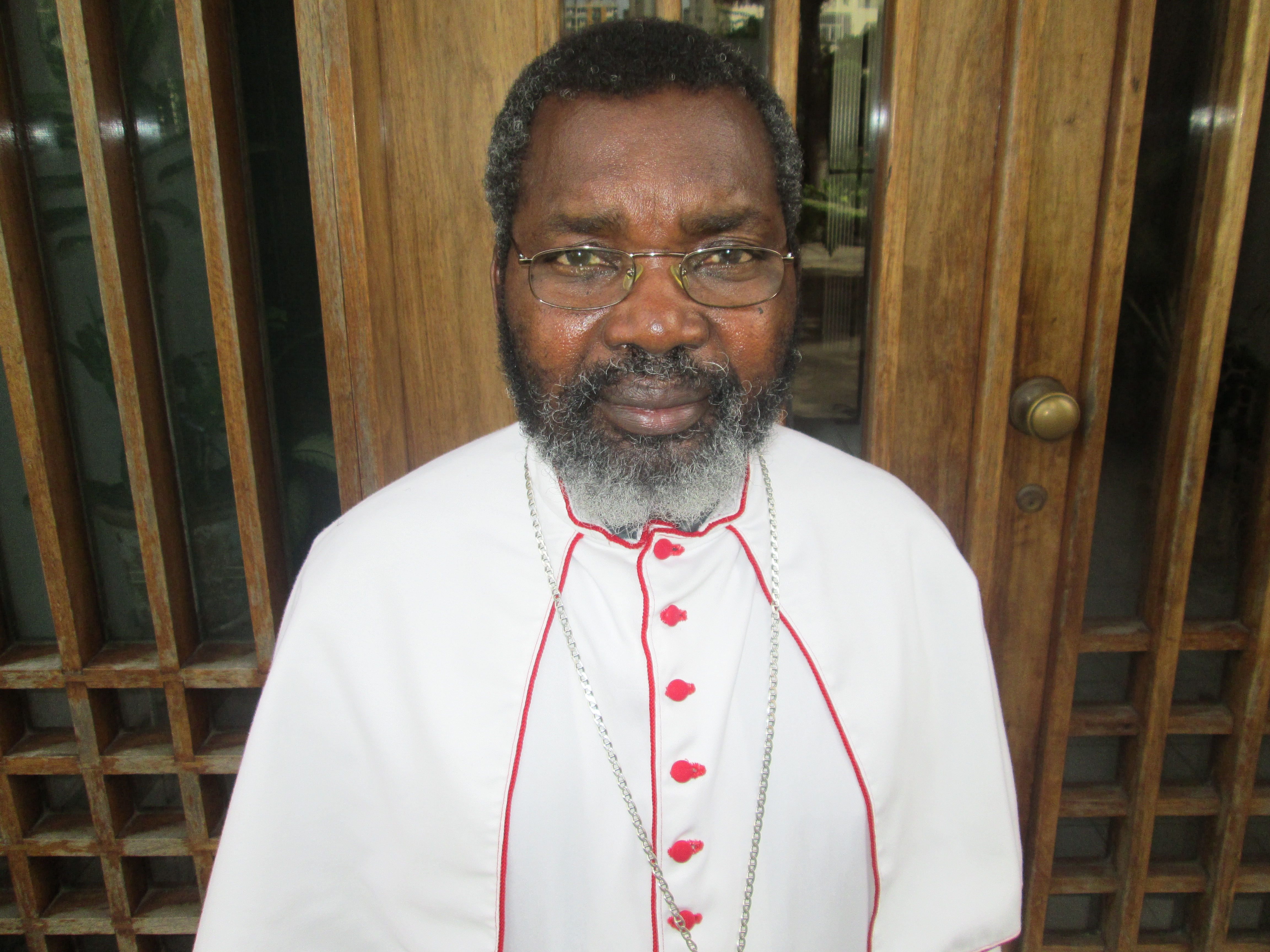 archbishop Francisco Chimoio